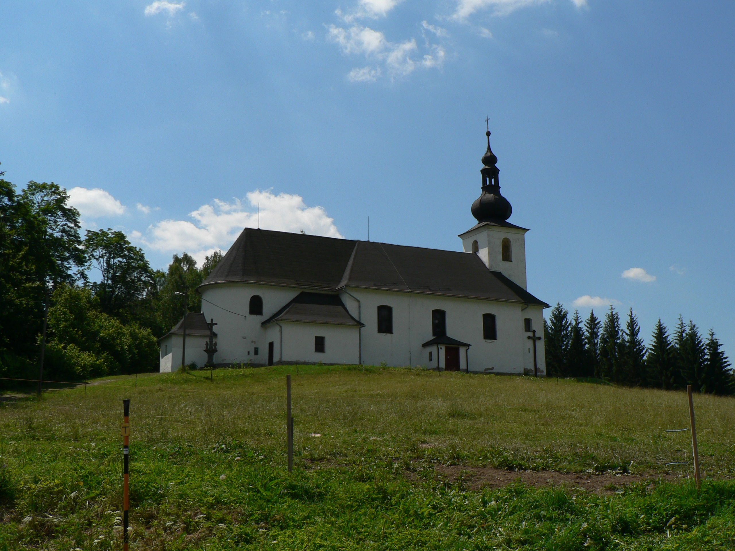 Church of Saint Isidore the Labourer in Nové Losiny, Šumperk District, Czech Republic